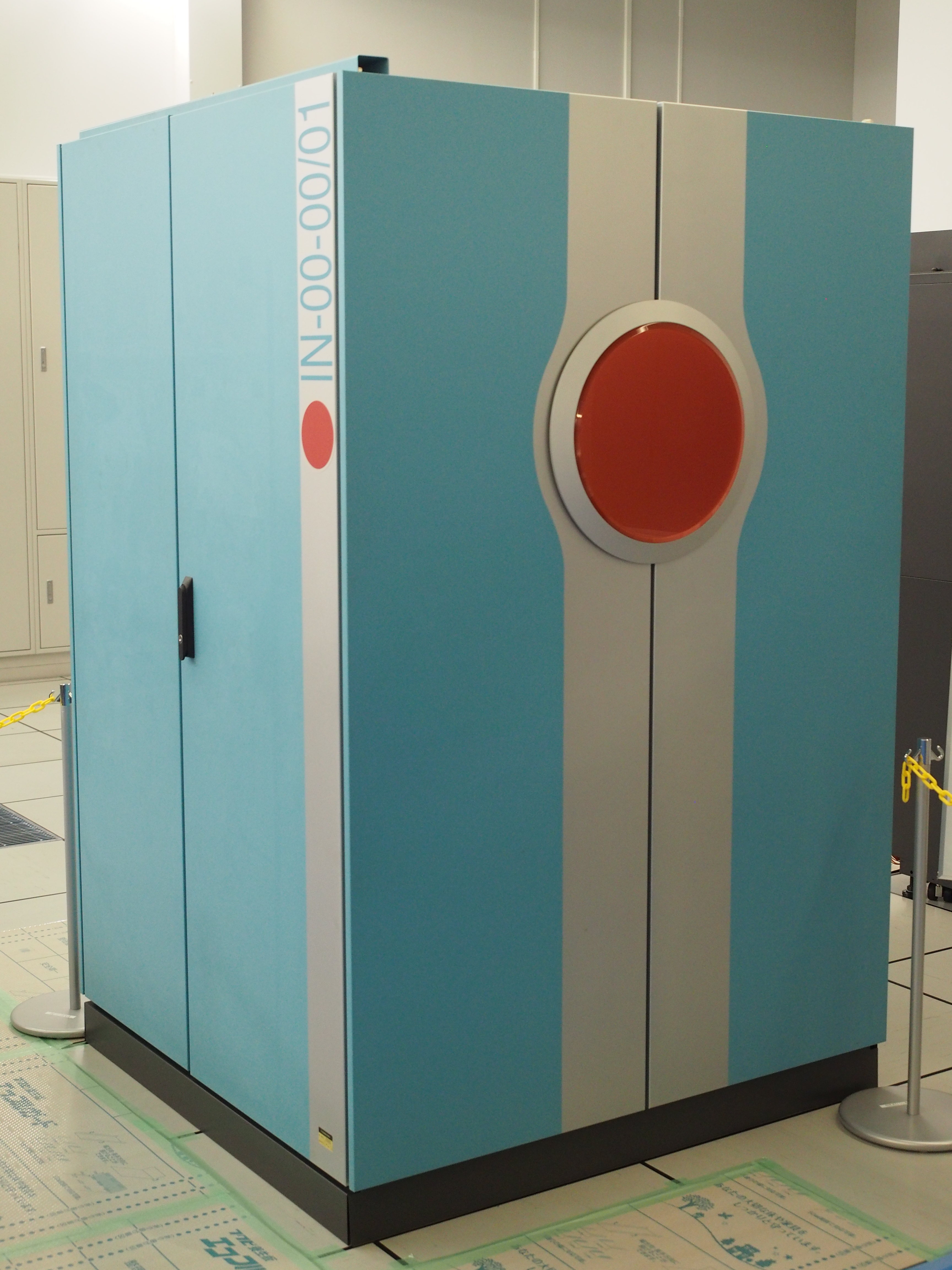 A rack of interconnection network of Earth Simulator (first generation), now on display. Photographed on the open house day of JAMSTEC Yokohama Institute for Earth Sciences.